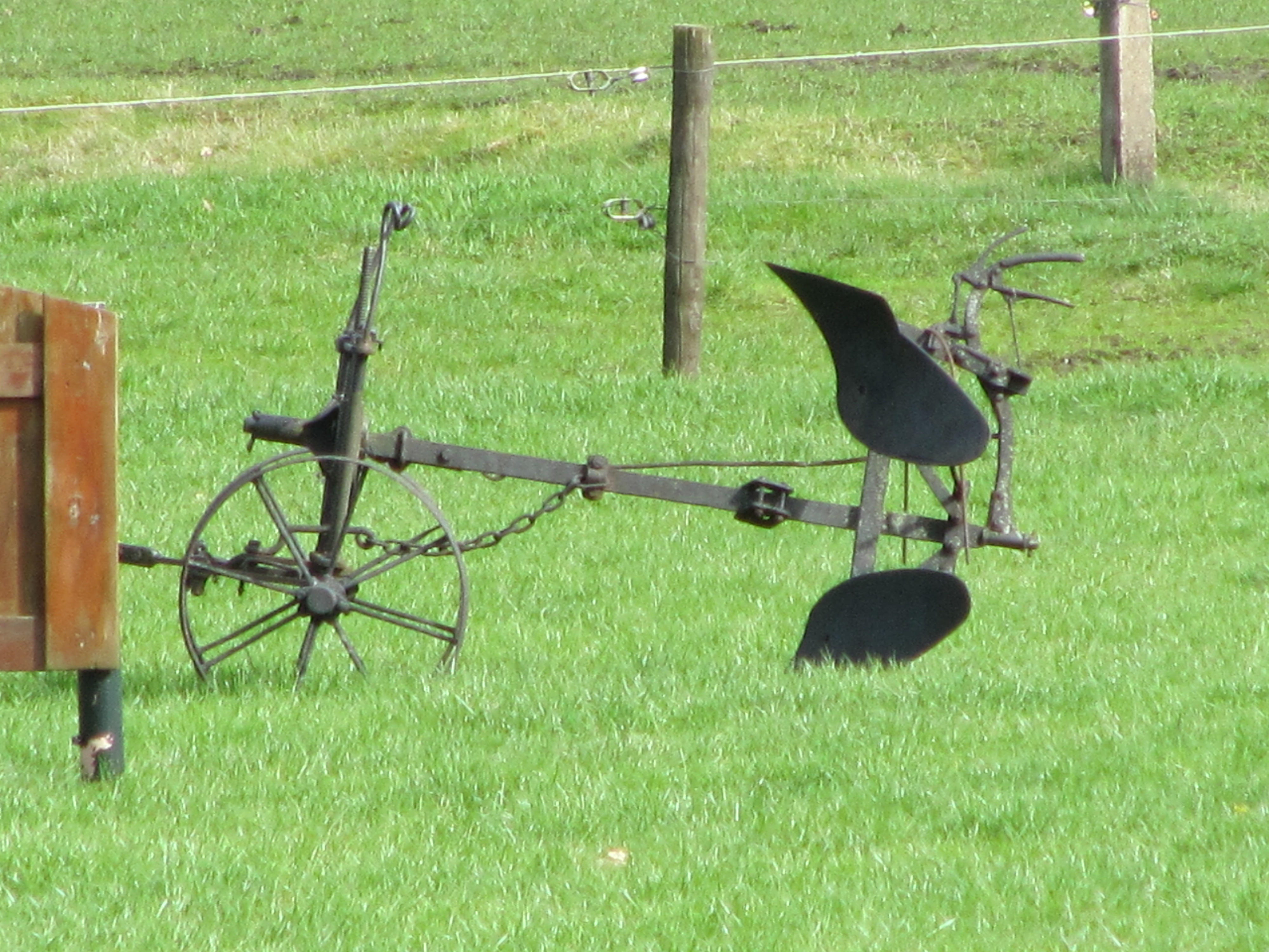 A plough – This picture was taken in The Netherlands in a place called Buurse.